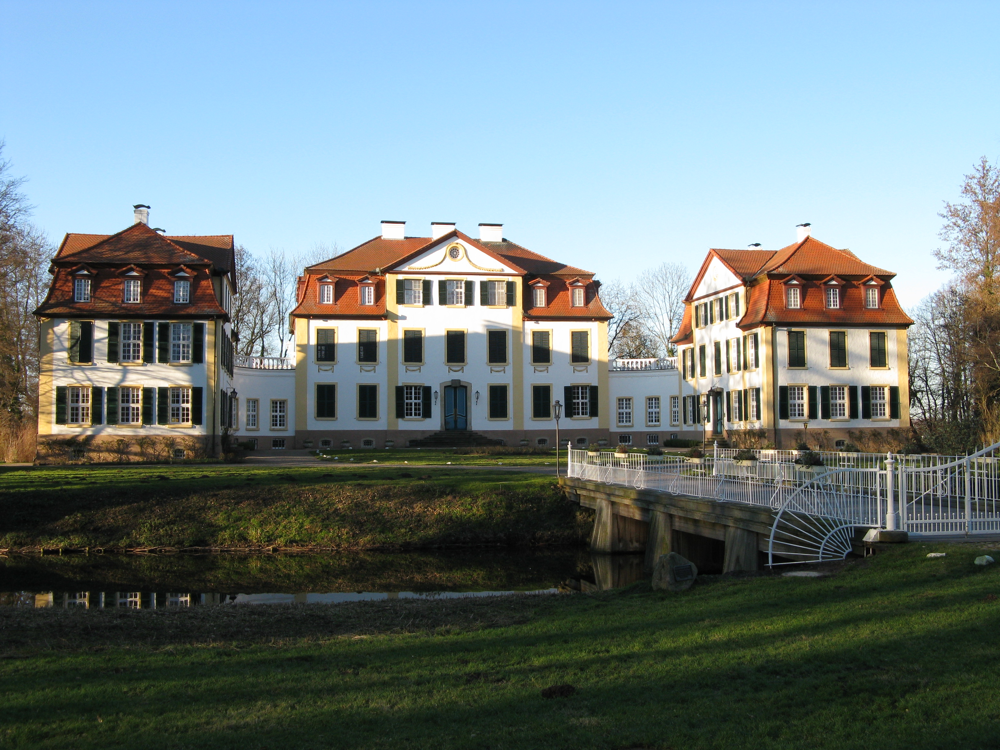 This is a photograph of an architectural monument. It is on the list of cultural monuments of Preußisch Oldendorf